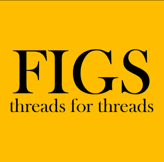 FIGS logo